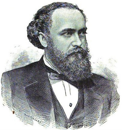 Ray V. Pierce, Congressman from New York